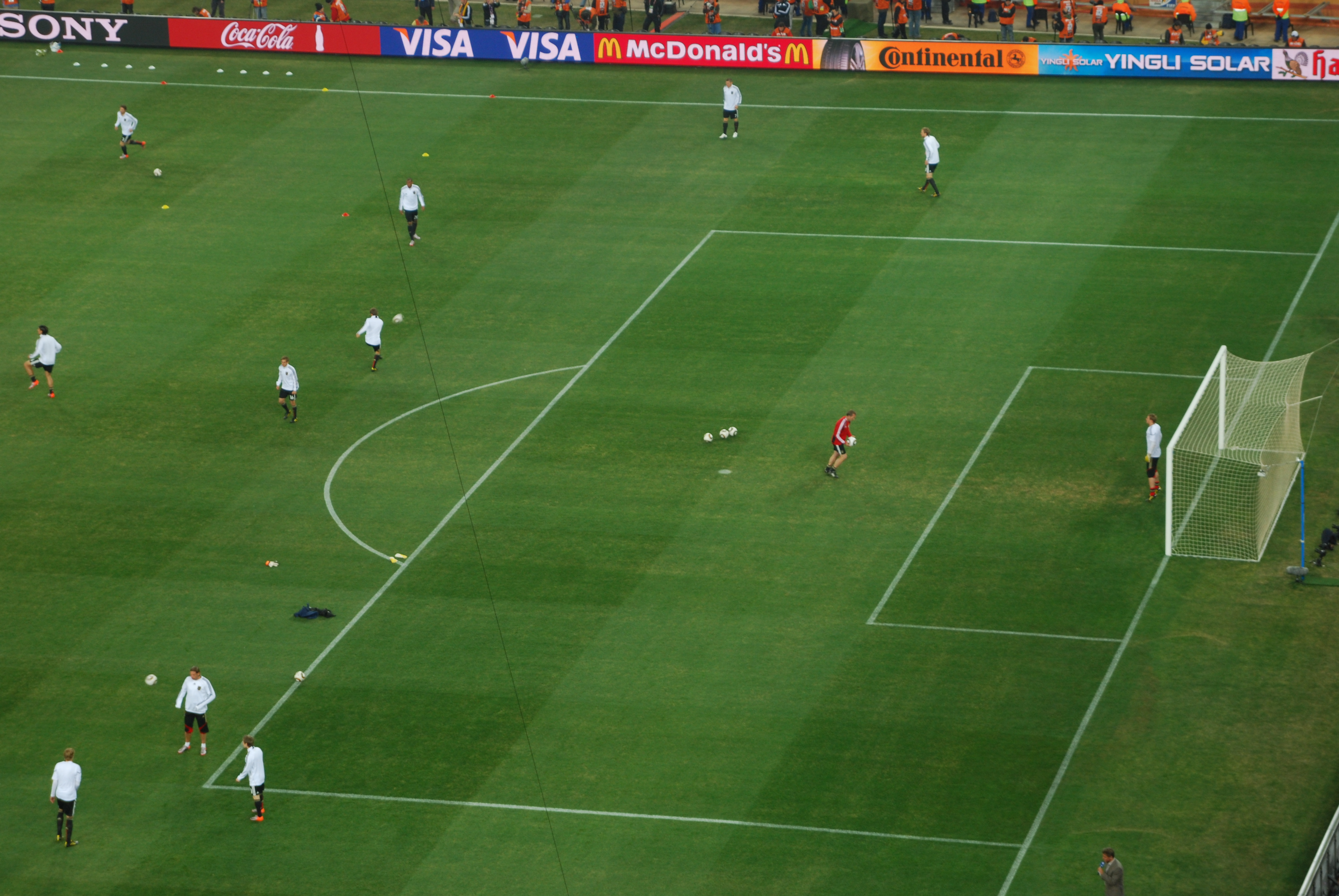 Germany and Ghana match at the FIFA World Cup June 23rd, 2010.